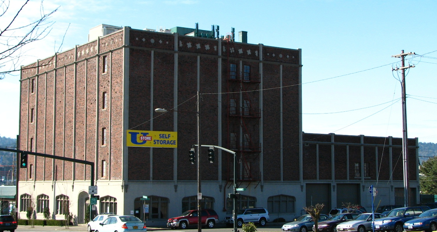 The historic Portland Van and Storage Building, located at 407 North Broadway, Portland, Oregon, United States, is listed on the US National Register of Historic Places. Built in 1926, it remains in its historic use as a commercial storage facility.